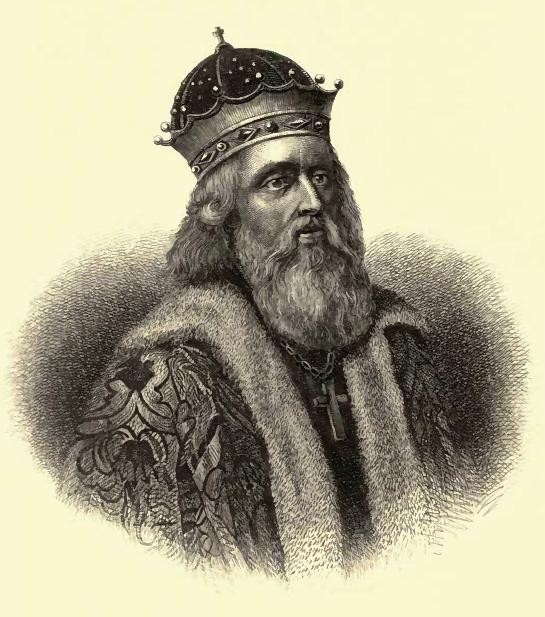 An illustration of Alexander Nevsky